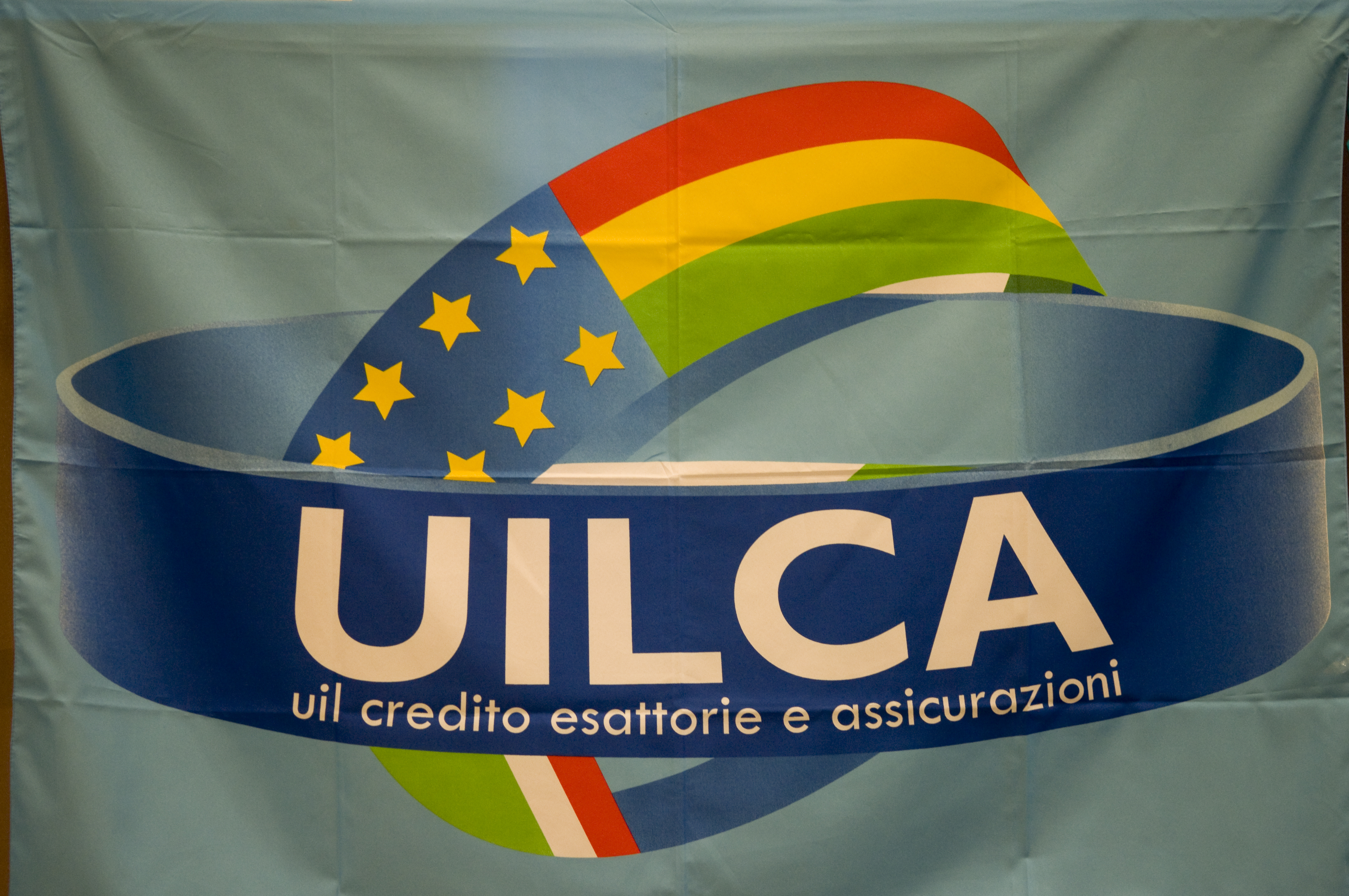 The flag of the UILCA